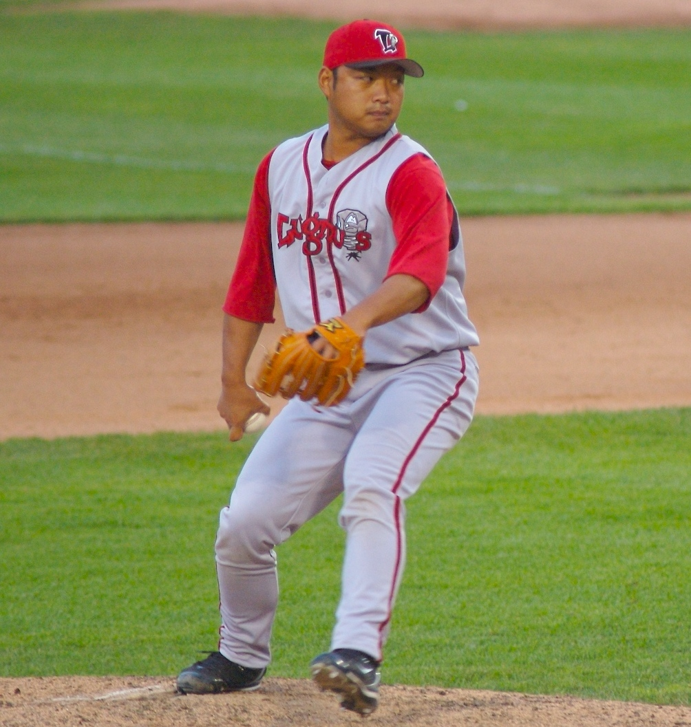 Po-Hsuan Keng delivers a pitch for the Lansing Lugnuts during a 2007 game at Fifth Third Ballpark